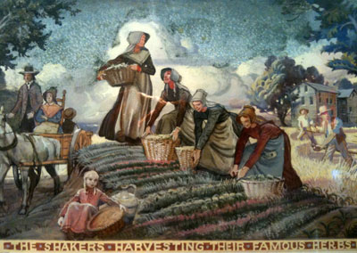 The Shakers harvesting their famous herbs